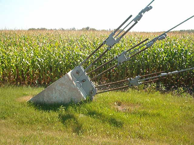 Pylon supporting KVLY tower (Photo by User:Hephaestos August 19, 2003 GFDL)